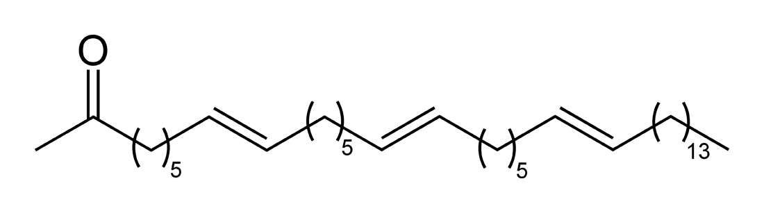 Skeletal formula of the alkenone known as 37:3, (8E,15E,22E)-heptatriaconta-8,15,22-trien-2-one, C37H68O. Structure from Org. Geochem. (1988) 13, 727-734.